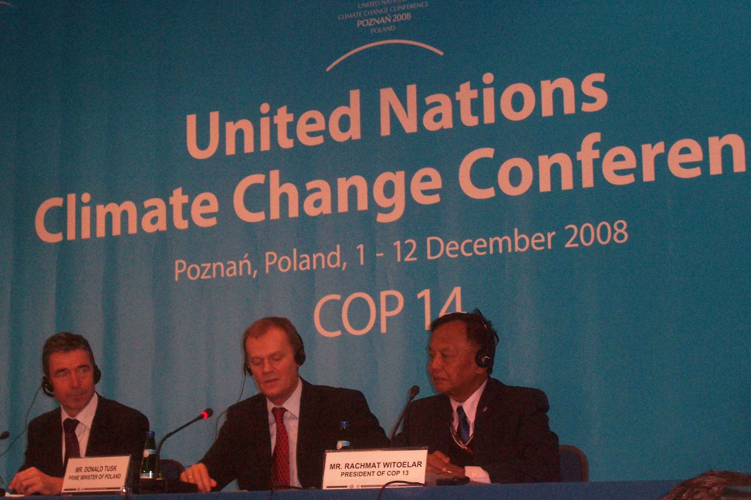 "Troika" Press Conference at the Poznan UN Climate Conference (COP 14 / MOP 4), 1 December, 2008 - Anders Fogh Rasmussen, Donald Tusk, Rachmat Witoelar